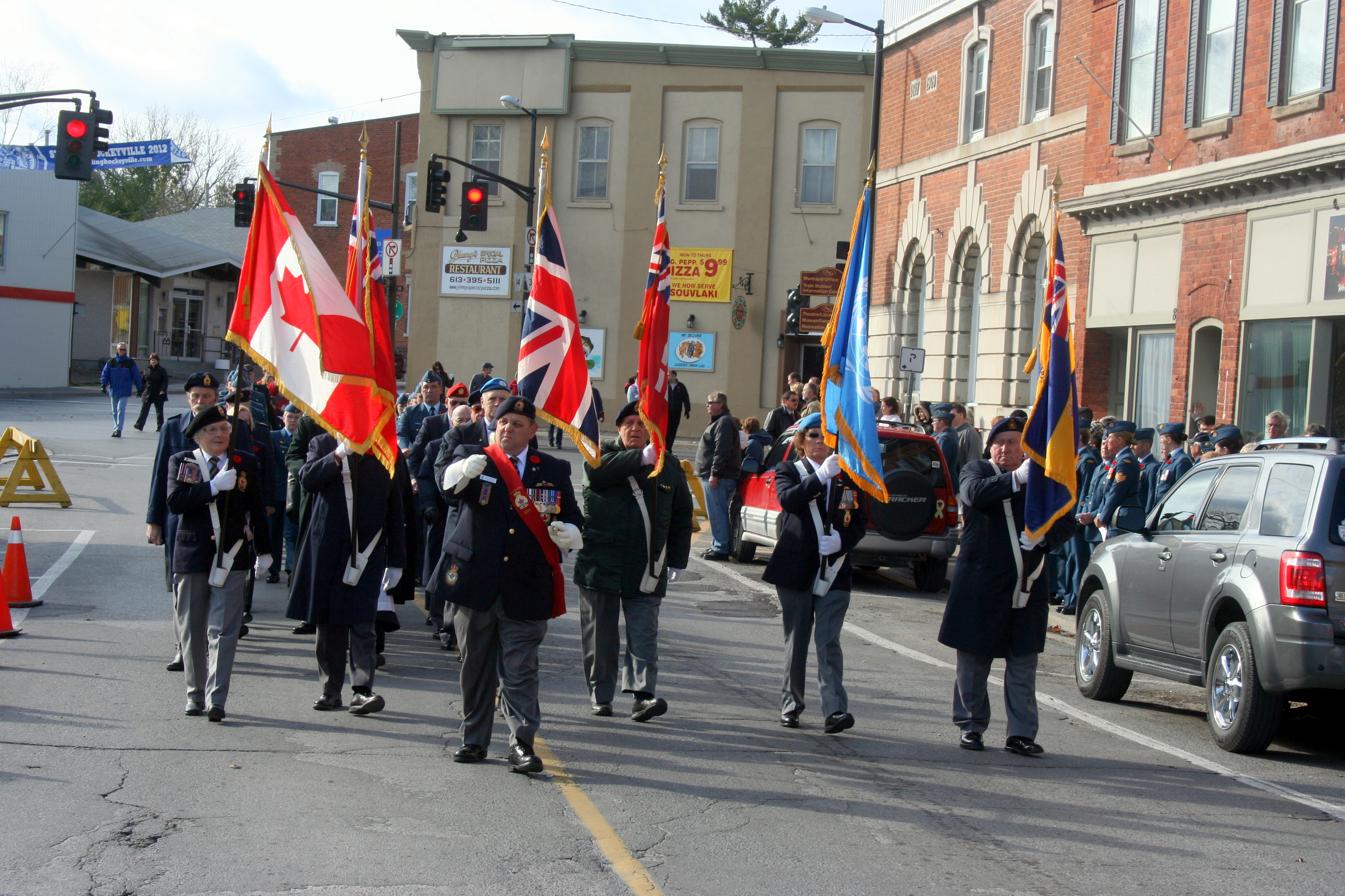 Colour party leads the Royal Canadian Legion and military contingent from CFB Trenton to the Stirling cenotaph